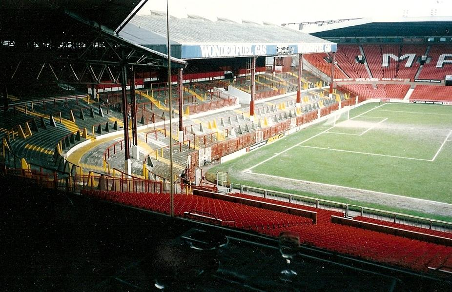 Stretford End at Old Trafford in 1992, seen from a VIP-box (use it free)